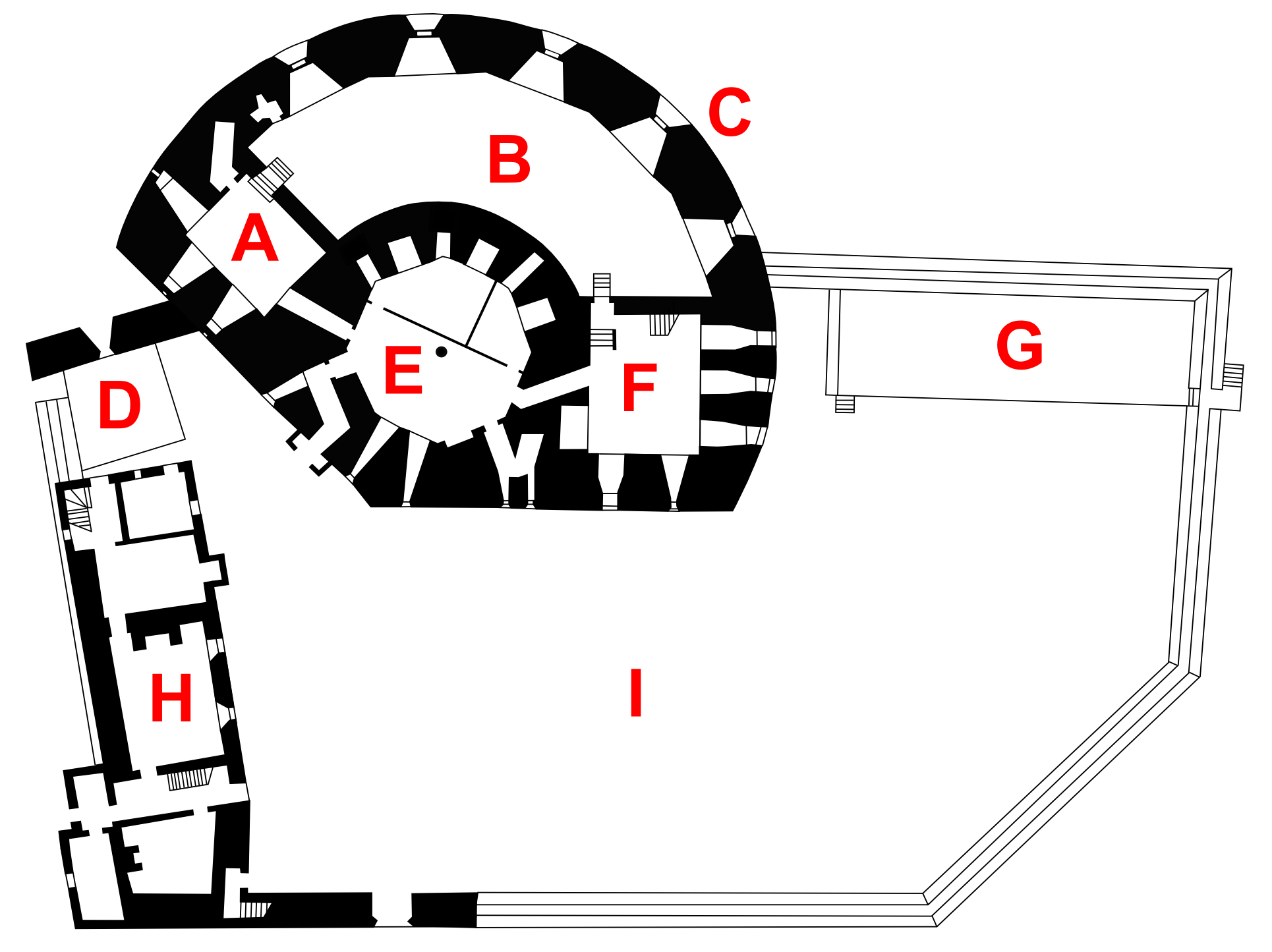 Portland Castle plan; after "Portland Castle", 1965, HMSO Guide